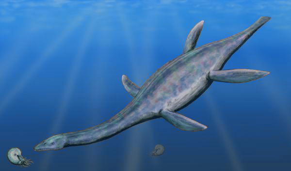 Thalassiodracon hawkinsi, a Plesiosaur from the Early Jurassic of England, pencil drawing